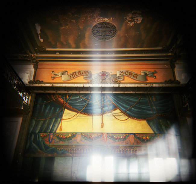 Photograph from Marian Beneš´s archive. Ze souboru: Bohemian National Hall, 2003 - 2008, Marian Beneš